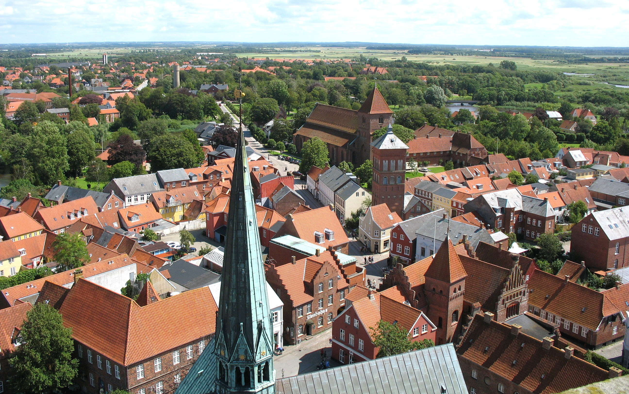 Eastern view from the tower of Ribe Domkirke